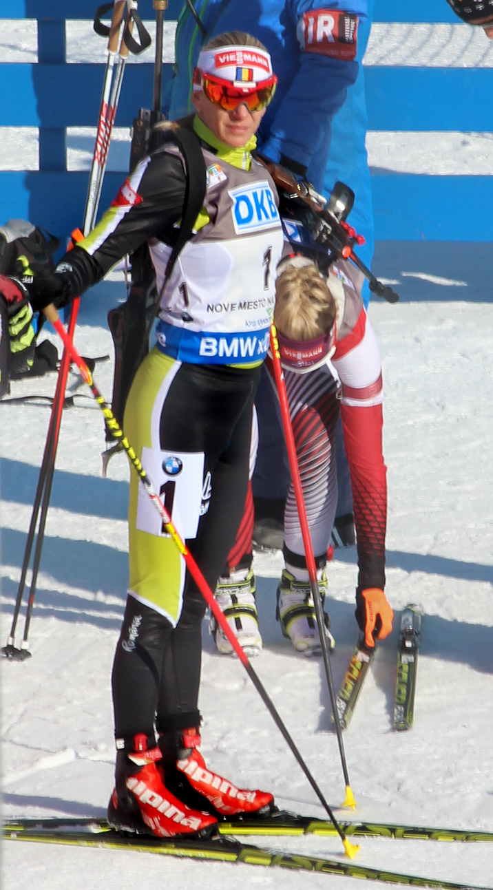 Éva Tófalvi at Biathlon World Cup 2015 in Nové Město, Czech Republic – sprint women